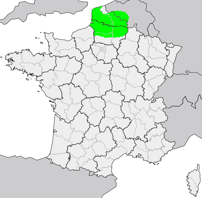 Area of the picard language